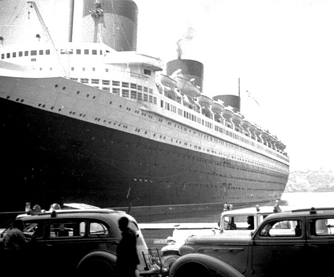 The SS Normandie in NYC Harbor during the celebration of the riband Crossing.